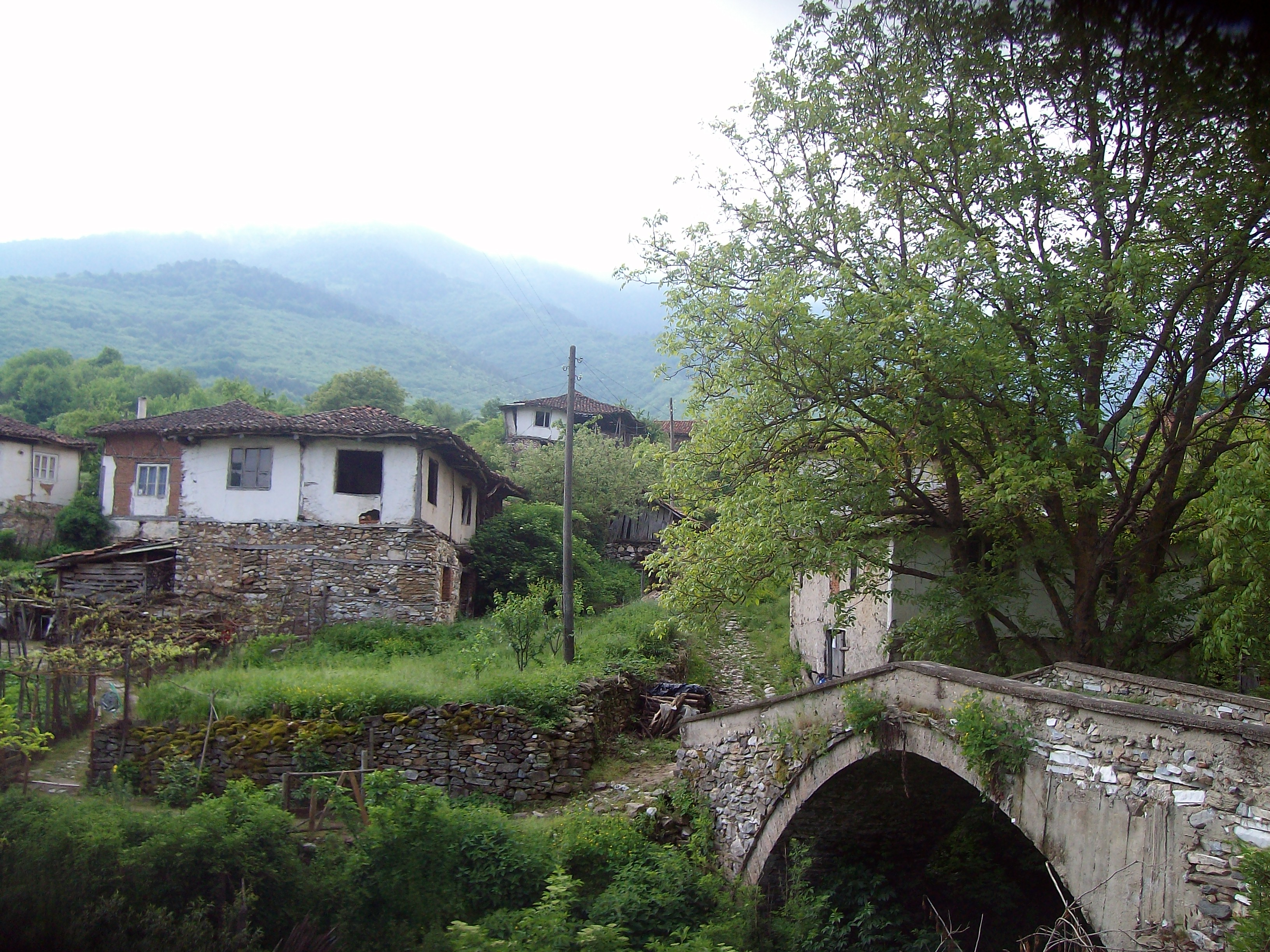 View from Goleshovo, Bulgaria